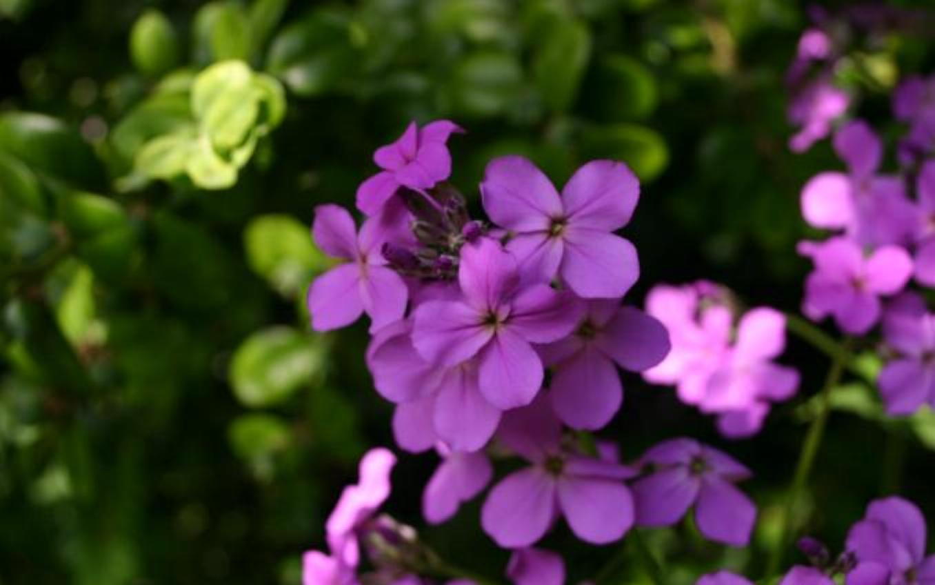 Hesperis matronalis: Flowers.